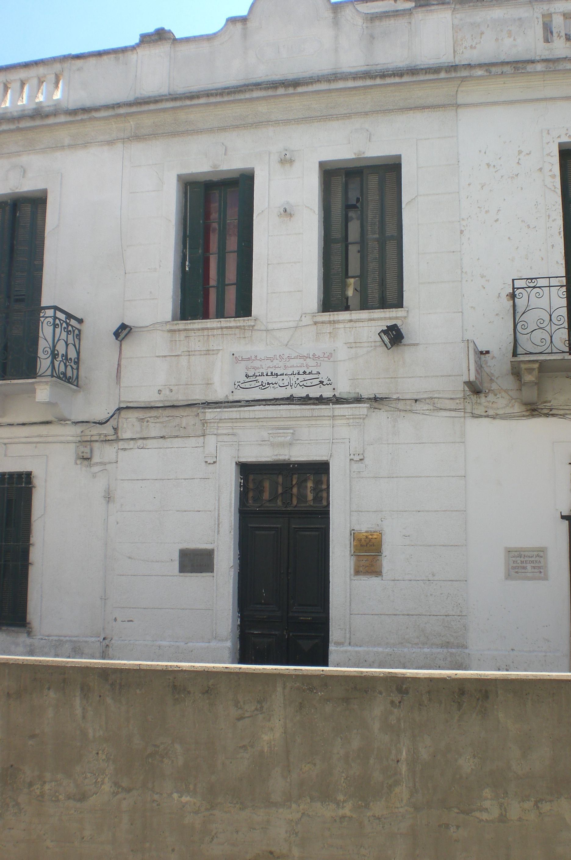 The first Headquarters of Neo-Destour In Bab Souika -Tunis